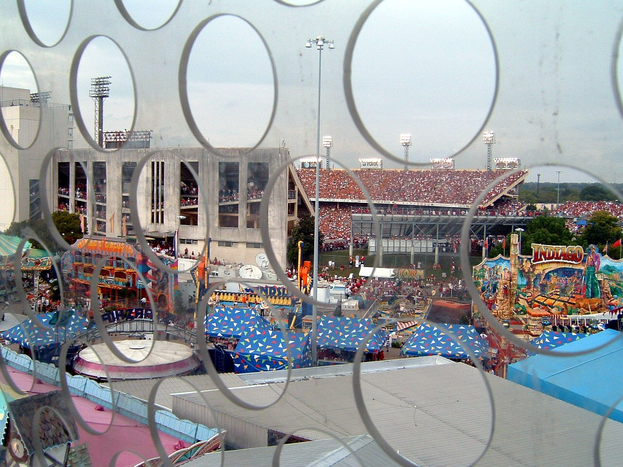 2007 Red River Shootout as viewed from the skyway of the Texas State Fair. See also 2007 Texas Longhorn football team.